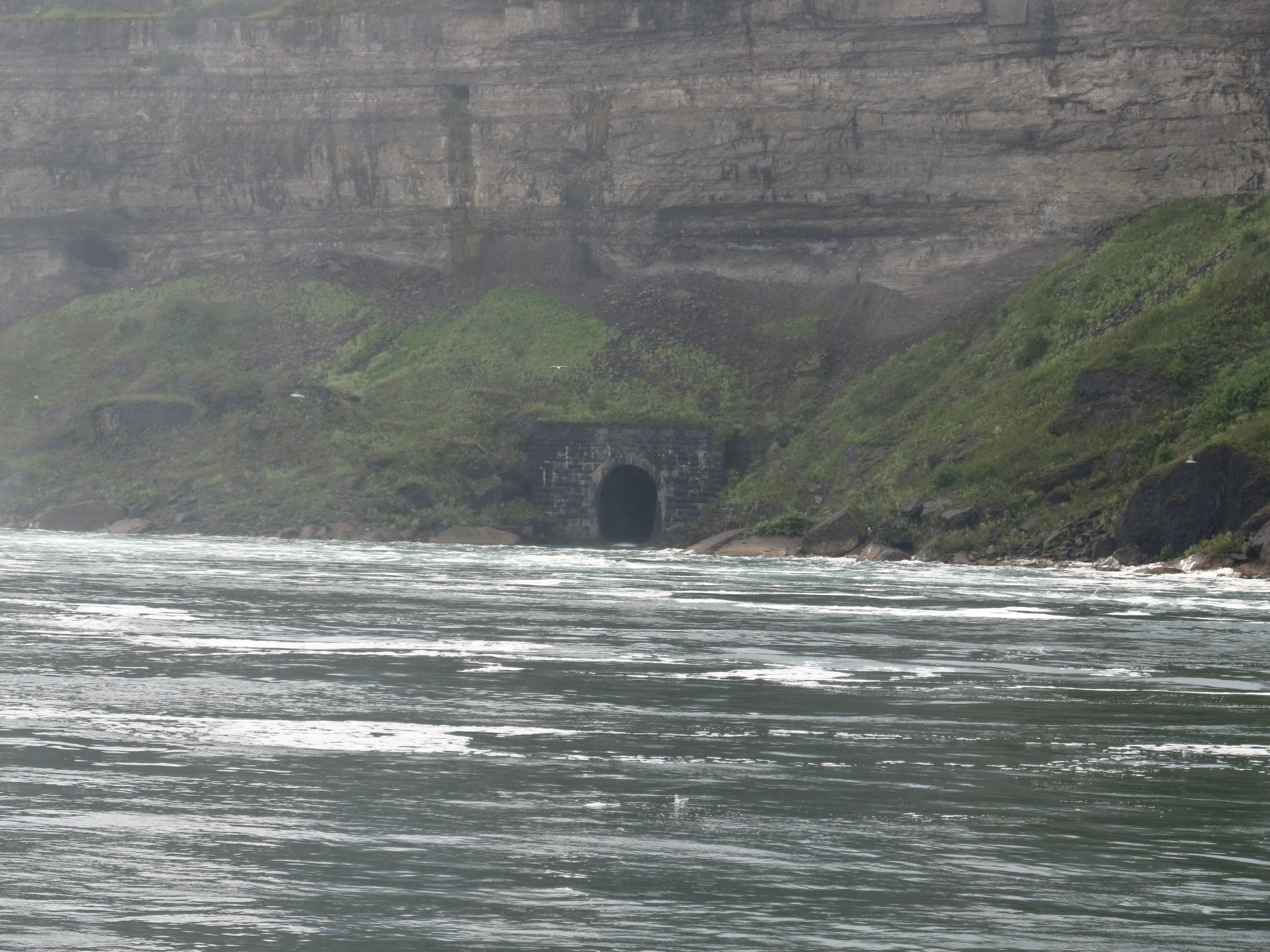 Niagara Falls is the collective name for three waterfalls that straddle the international border between the Canadian province of Ontario and the U.S. state of New York. They form the southern end of the Niagara Gorge. From largest to smallest, the three waterfalls are the Horseshoe Falls, the American Falls and the Bridal Veil Falls. The Horseshoe Falls lie on the Canadian side and the American Falls on the American side, separated by Goat Island. The smaller Bridal Veil Falls are also located on the American side, separated from the other waterfalls by Luna Island. The international boundary line was originally drawn through Horseshoe Falls in 1819, but the boundary has long been in dispute due to natural erosion and construction. Located on the Niagara River which drains Lake Erie into Lake Ontario, the combined falls form the highest flow rate of any waterfall in the world, with a vertical drop of more than 165 feet (50 m). Horseshoe Falls is the most powerful waterfall in North America, as measured by vertical height and also by flow rate. The falls are located 17 miles (27 km) north-northwest of Buffalo, New York and 75 miles (121 km) south-southeast of Toronto, between the twin cities of Niagara Falls, Ontario, and Niagara Falls, New York. Niagara Falls were formed when glaciers receded at the end of the Wisconsin glaciation (the last ice age), and water from the newly formed Great Lakes carved a path through the Niagara Escarpment en route to the Atlantic Ocean. While not exceptionally high, the Niagara Falls are very wide. More than 6 million cubic feet (168,000 m3) of water falls over the crest line every minute in high flow,[4] and almost 4 million cubic feet (110,000 m3) on average. The Niagara Falls are renowned both for their beauty and as a valuable source of hydroelectric power. Managing the balance between recreational, commercial, and industrial uses has been a challenge for the stewards of the falls since the 19th century.